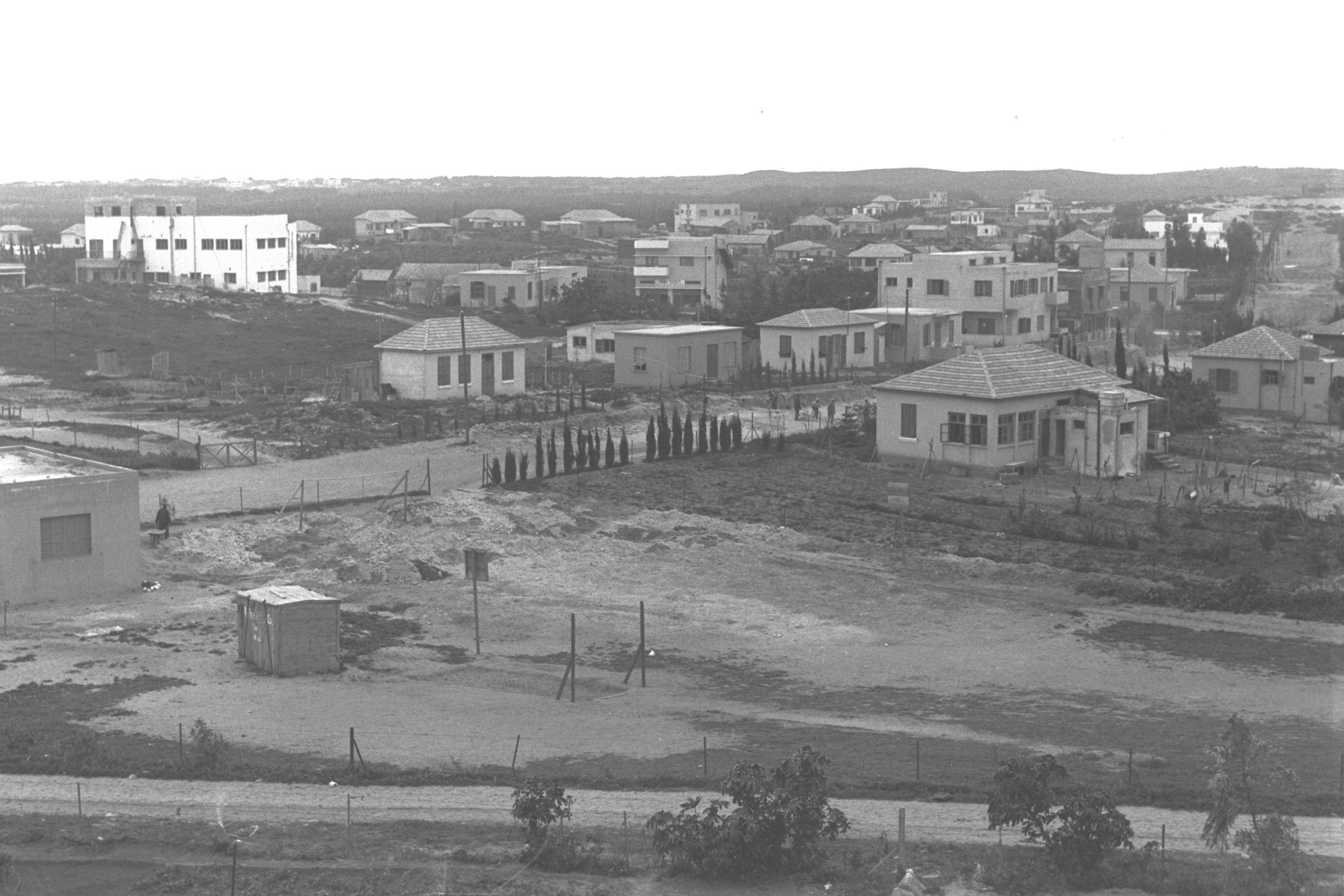 VIEW OF NETANYA. מראה כללי של היישוב נתניה.